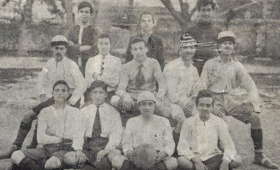 Karsiyaka in 1912